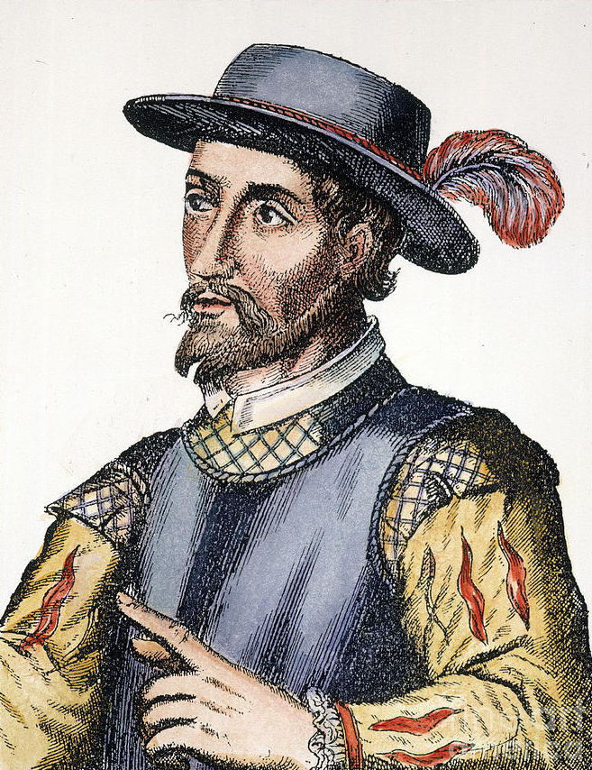 17th century Spanish engraving (colored) of Juan Ponce de León